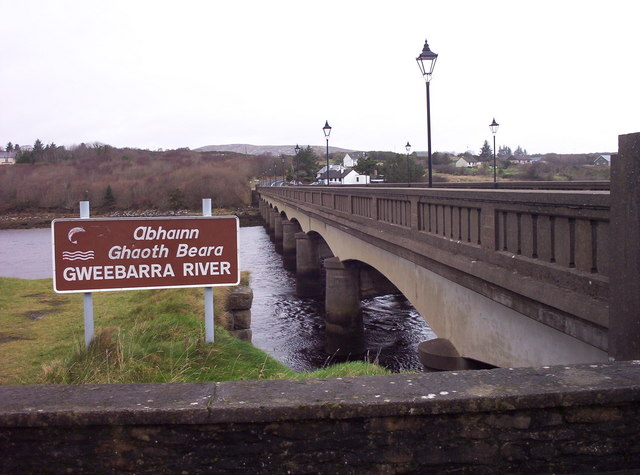 Bridge over the Gweebarra River